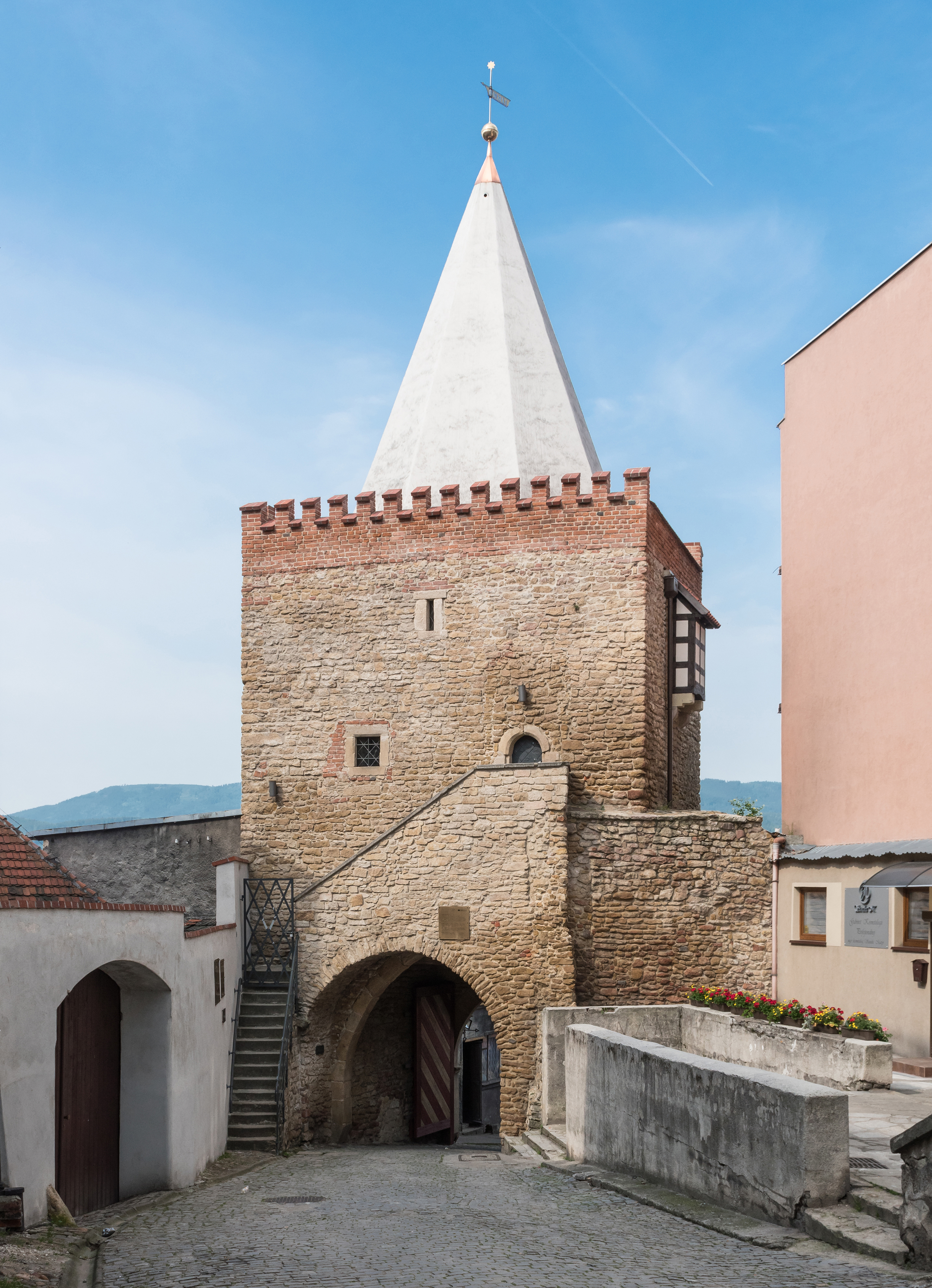 Wodna Gate in Bystrzyca Kłodzka